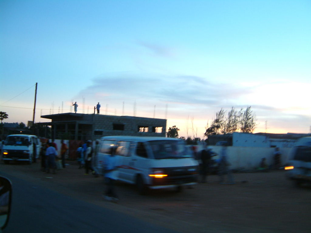 Xai-Xai, Mozambique